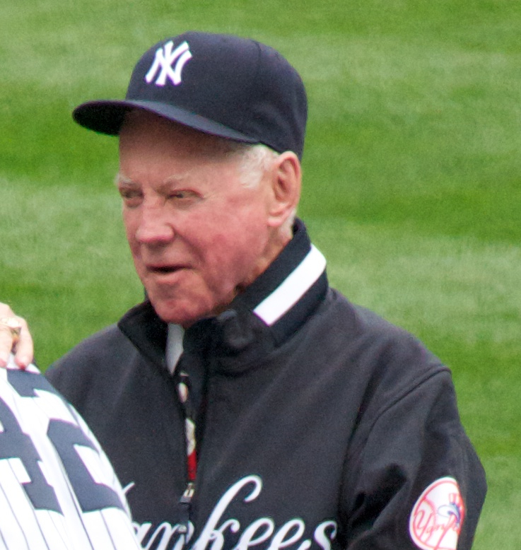 Whitey Ford at Yankee Stadium in 2010. This file has been extracted from another file: Yogi Berra, Mariano Rivera, Whitey Ford.jpg